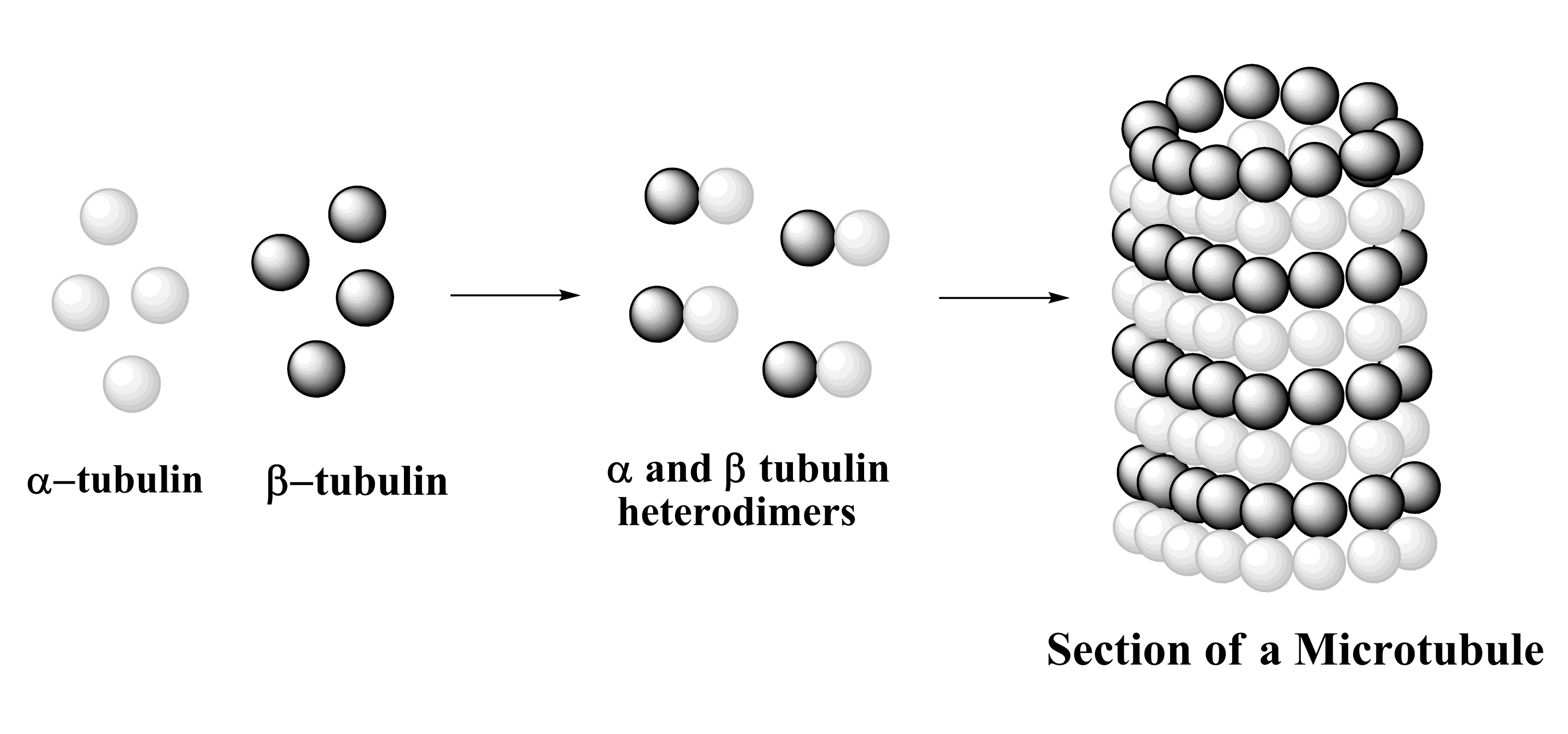 α and β tubulin associates to form α-β-heterodimer which then arrange in a head to tail manner to form the microtubule